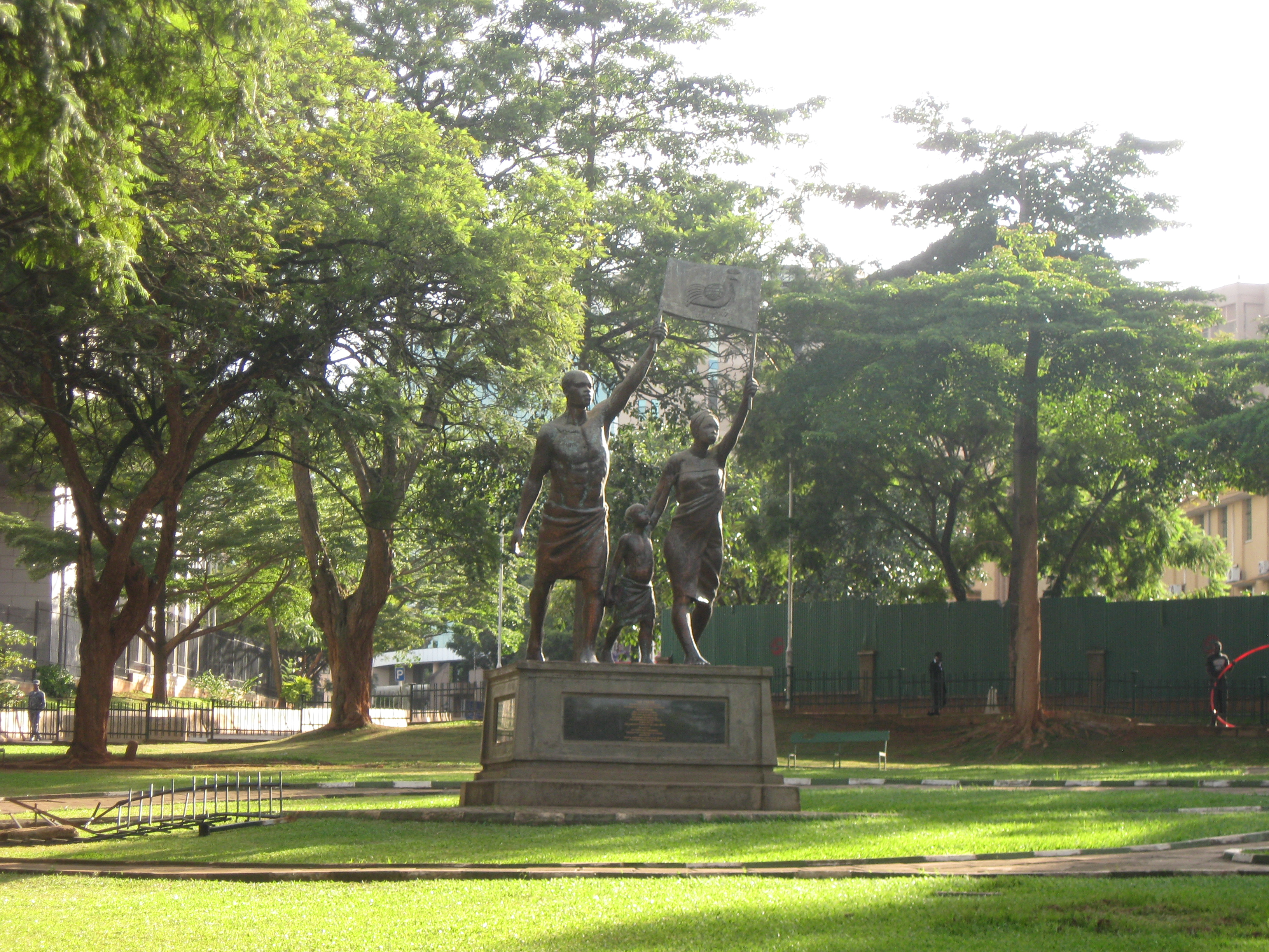 Stride monument in Kampala, Uganda